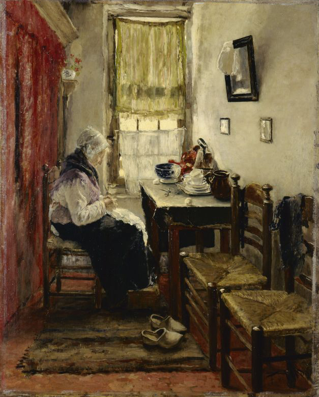 Realist painting